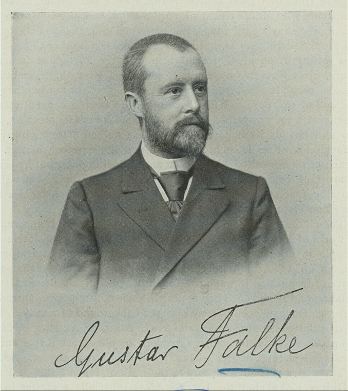 German writer and poet-impressionist, also translator.